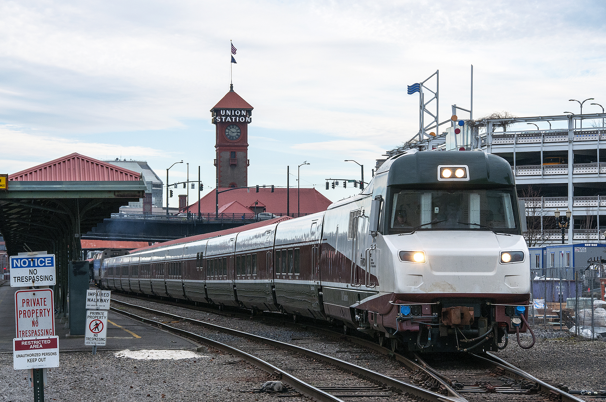 Union Station, Portland, Oregon.